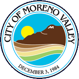 Seal of Moreno Valley, California